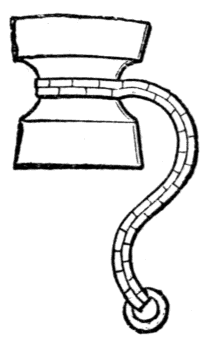 Fig. 682.—Badge of the Duke of Suffolk.